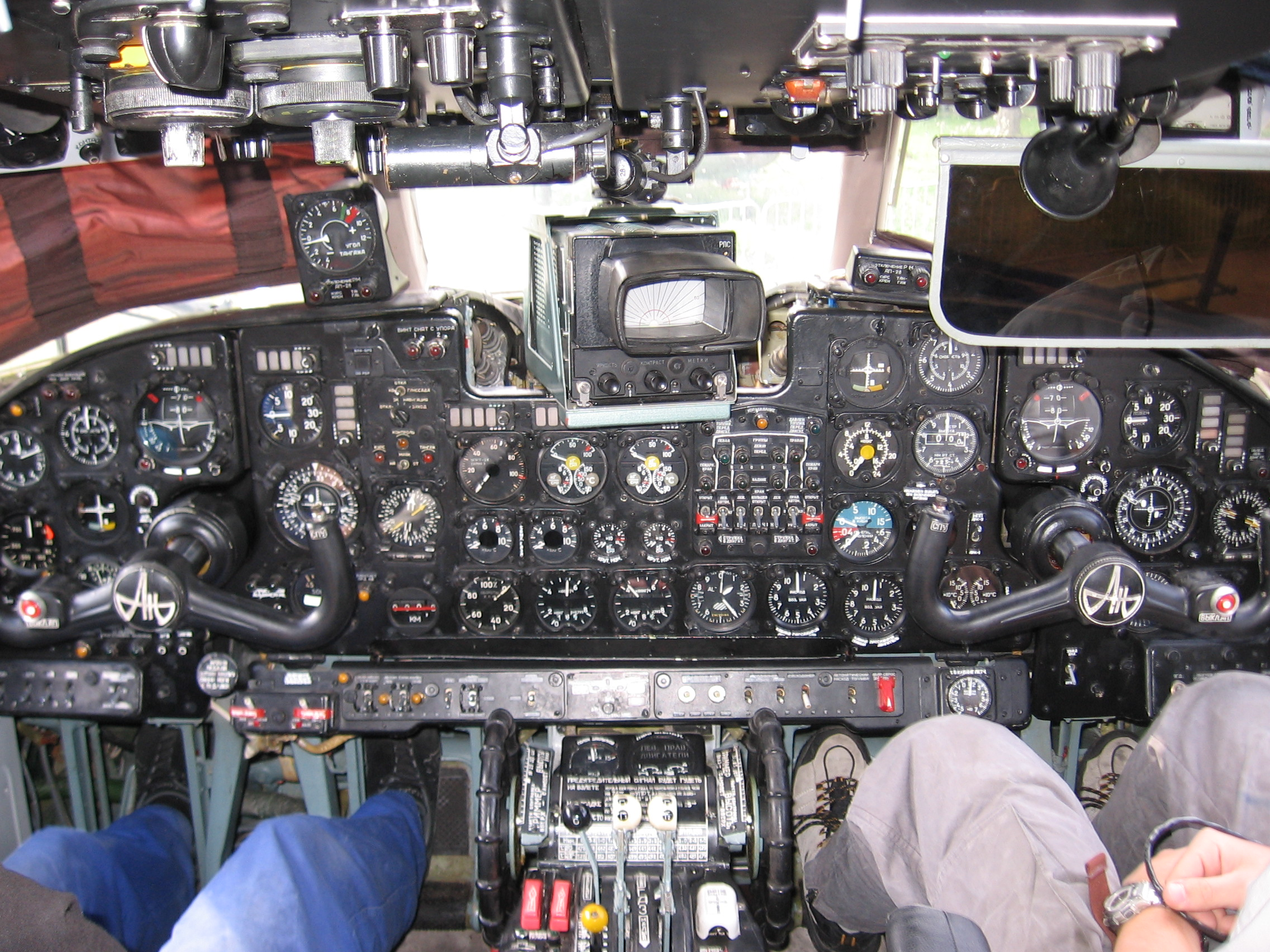 Cockpit of Antonov An-24, Kbely museum, Prague